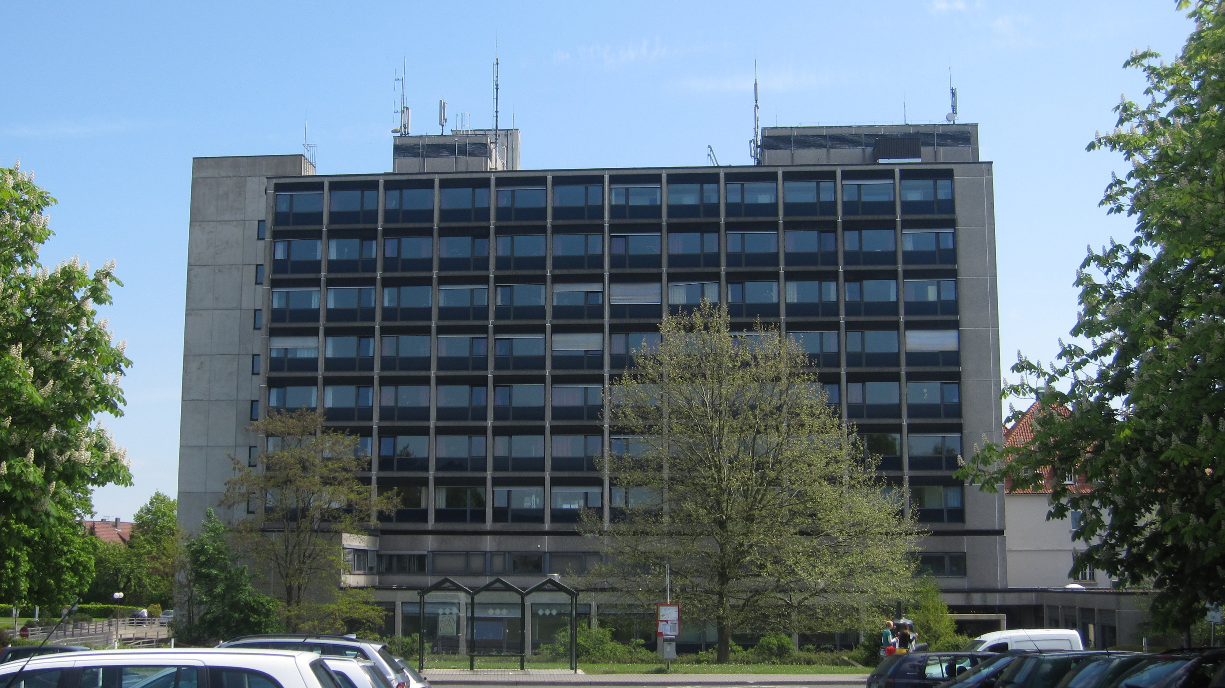 The former extension building of the St. Petri hospital in Warburg, North Rhine-Westphalia, Germany, in 2010. The building was constructed in 1973, and demolished in 2014.